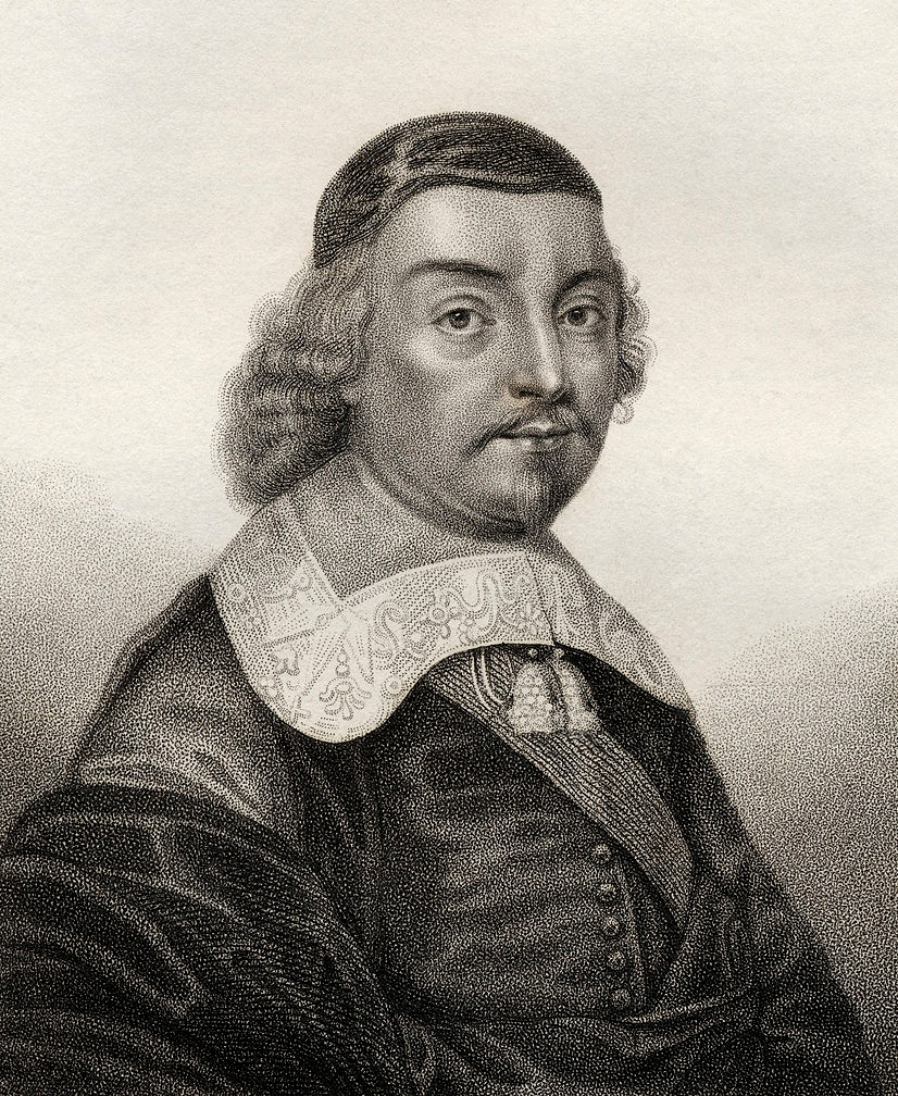 Mildmay Fane, 2nd Earl of Westmorland (1602-1666)